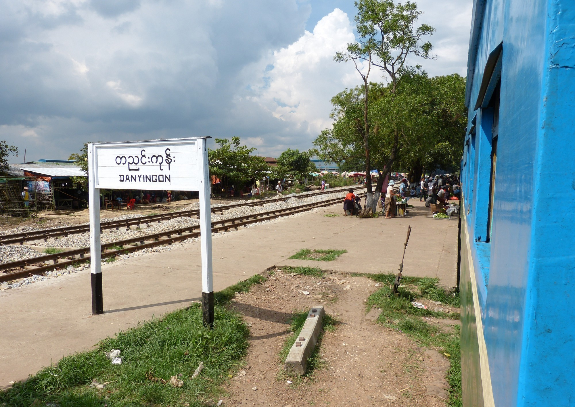 Circular train, Yangon